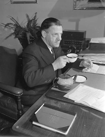 Robert Hood Saunders Source: Archives of Ontario Digital Image Number: I0020038.JPG Title: Toronto Mayor Robert Saunders Date: February 1948 Creator: Gilbert A. Milne Format: Black and white negative Reference Code: C 3-1 Item Reference Code: C 3-1-0-0-406